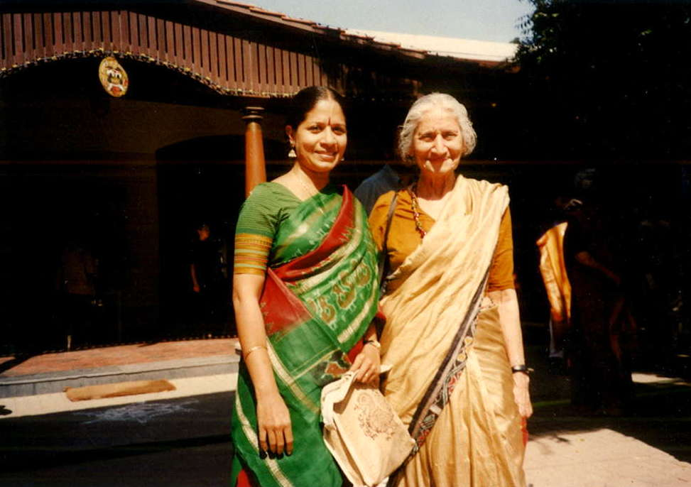 Dr (Smt) Lakshmi Ramaswamy with Kapila Vatsyayan, Natya Kala Conference, 2008